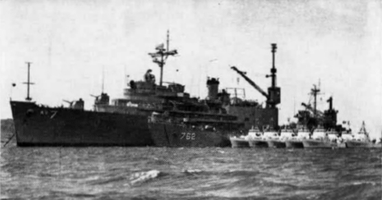 The U.S. Navy seaplane tender USS Currituck (AV-7) at the end of her 62-day deployment to Con San Island, Vietnam, as flagship of "Operation Market Time", in 1965. Next to Currituck are the tank landing ship USS Floyd County (LST-762) and nine U.S. Coast Guard motor patrol boats.